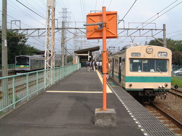 JR East 101 series and 205-1000 series EMUs at Kawasaki-Shimmachi Station on the Nambu Line Hama-Kawasaki branch